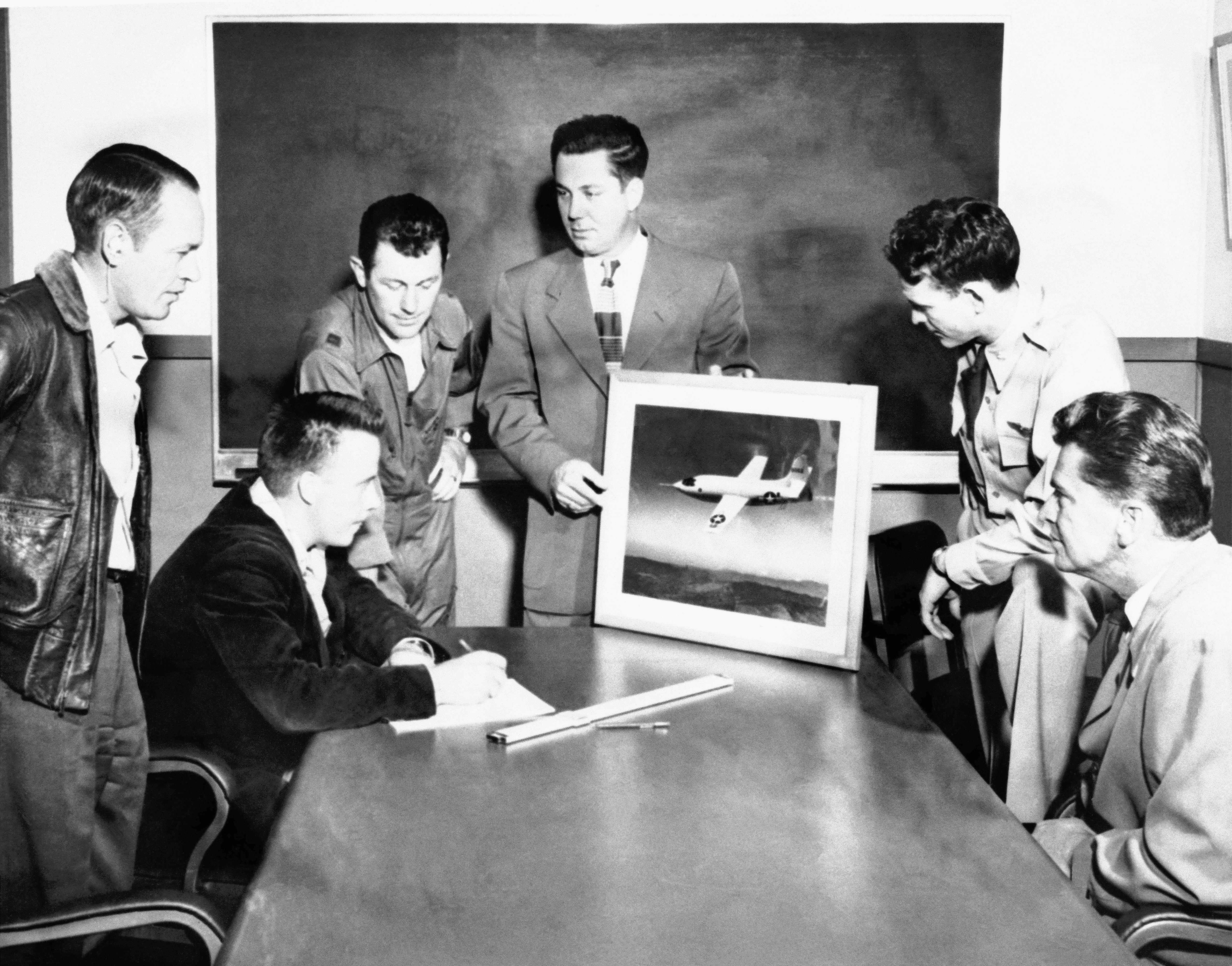 NACA Muroc Flight Test Unit XS-1 Team members and USAF Pilots. From Left to Right: Joseph Vensel, Head of Operations; Gerald Truszynski, Head of Instrumentation; Captain Charles Chuck Yeager, USAF pilot; Walter Williams, Head of the Unit; Major Jack Ridley, USAF pilot; and De E. Beeler, Head of Engineers. NOTE: The photogragh being examined is on Commons as Bell X-1 46-062 (in flight).jpg.